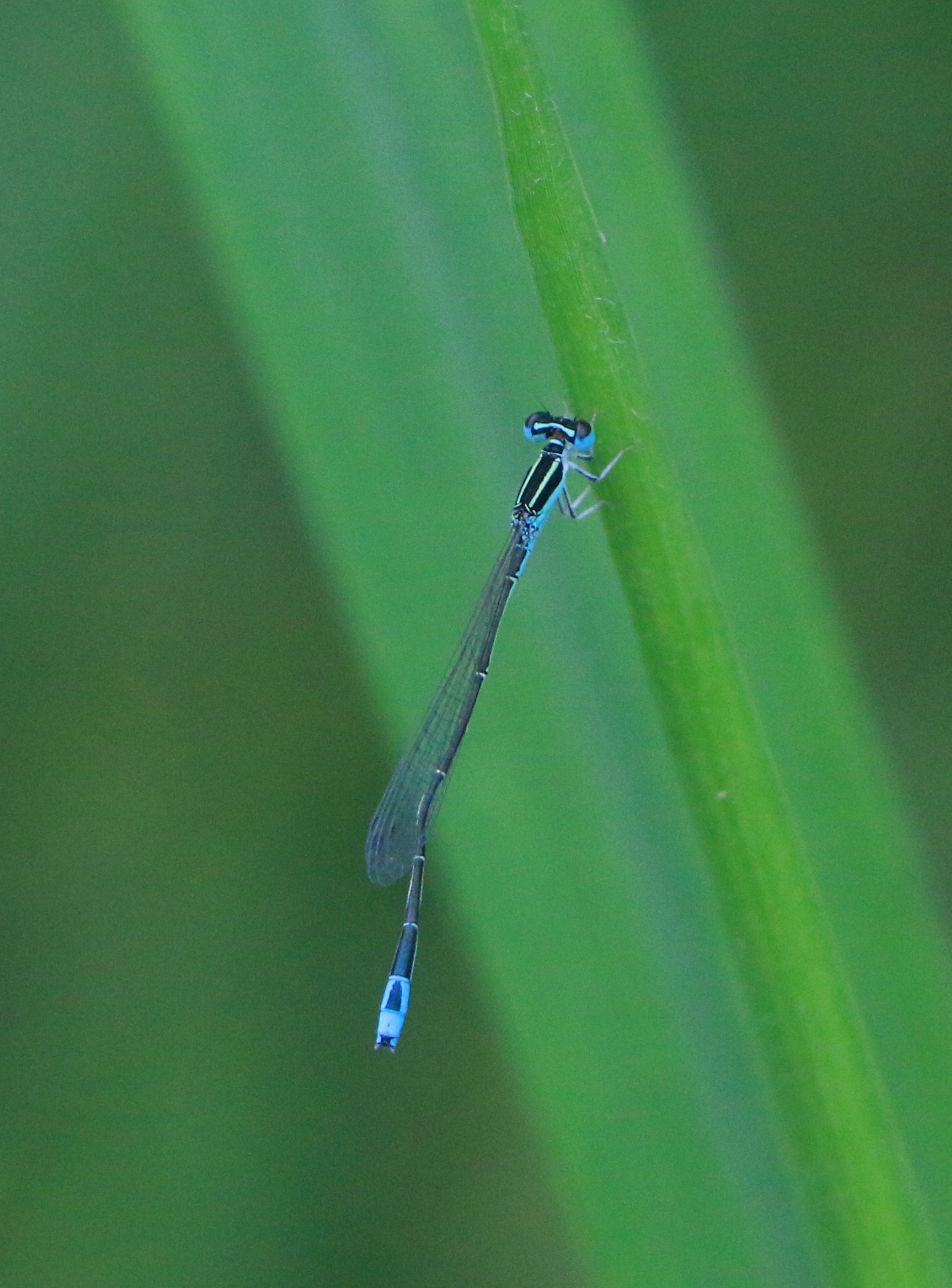 Green-striped Slender Dartlet,Aciagrion occidentale